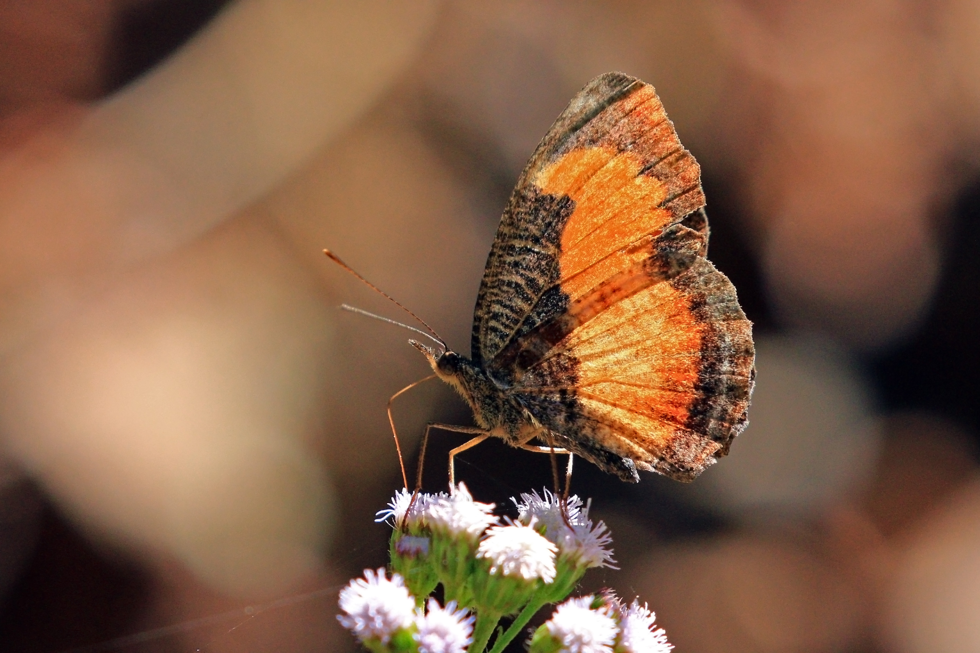 Black and orange (Vanessula milca latifasciata) female, Kakamega Forest, Kenya